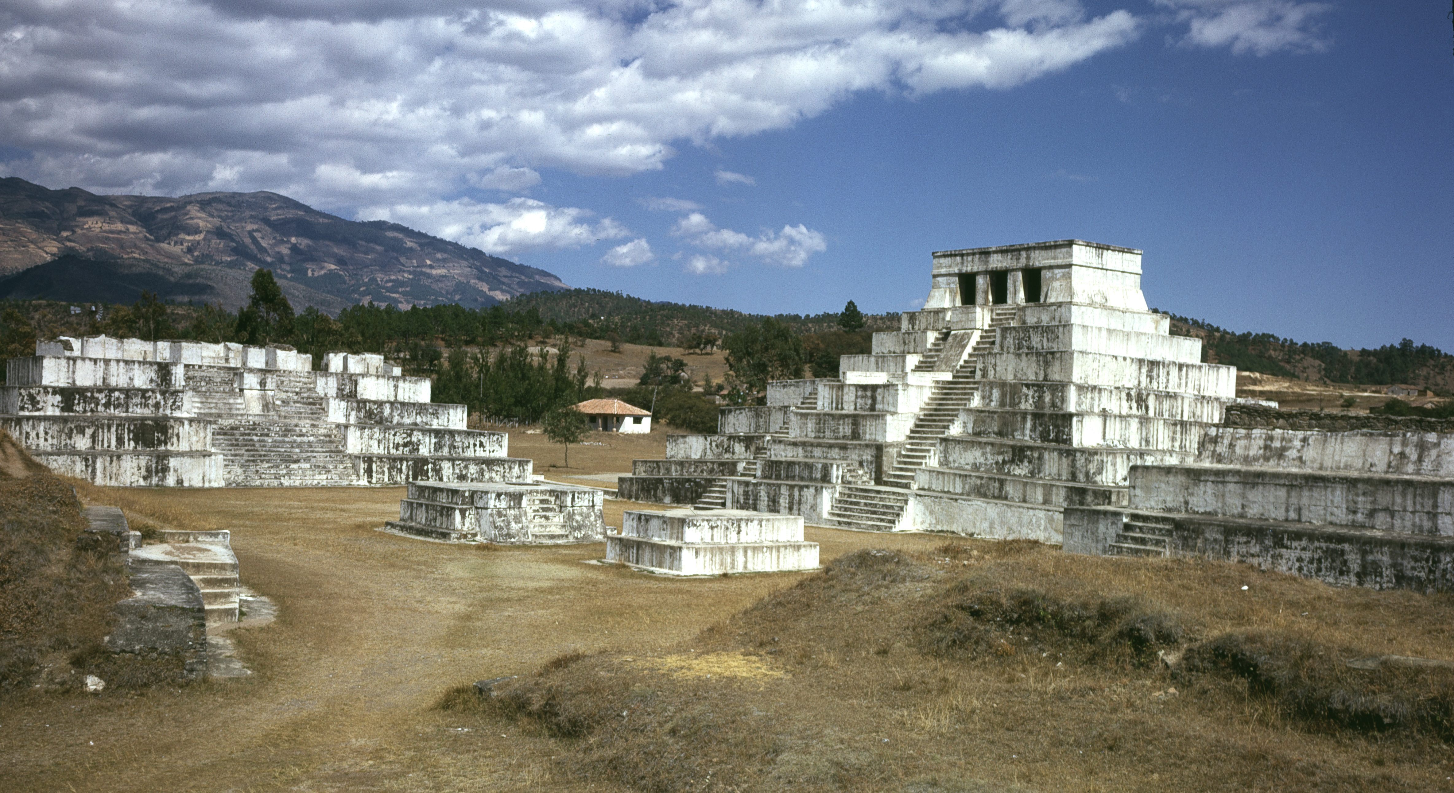 Zacuelu, Guatemala: Main square